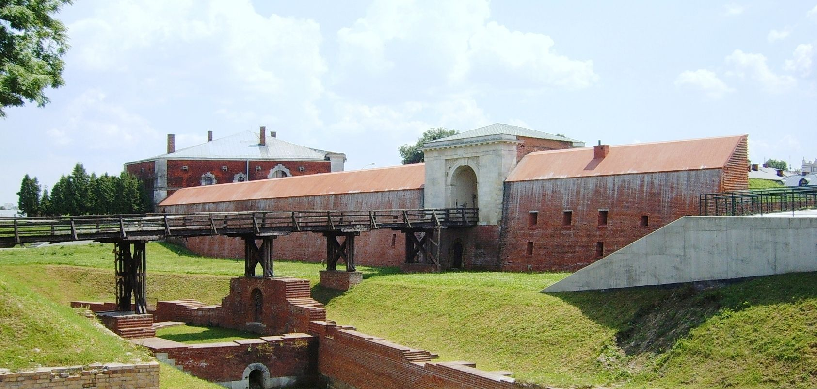 The New Lublin Gate in Zamość